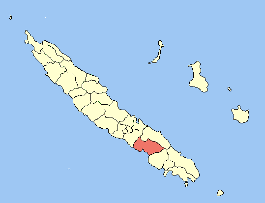 Created map myself.